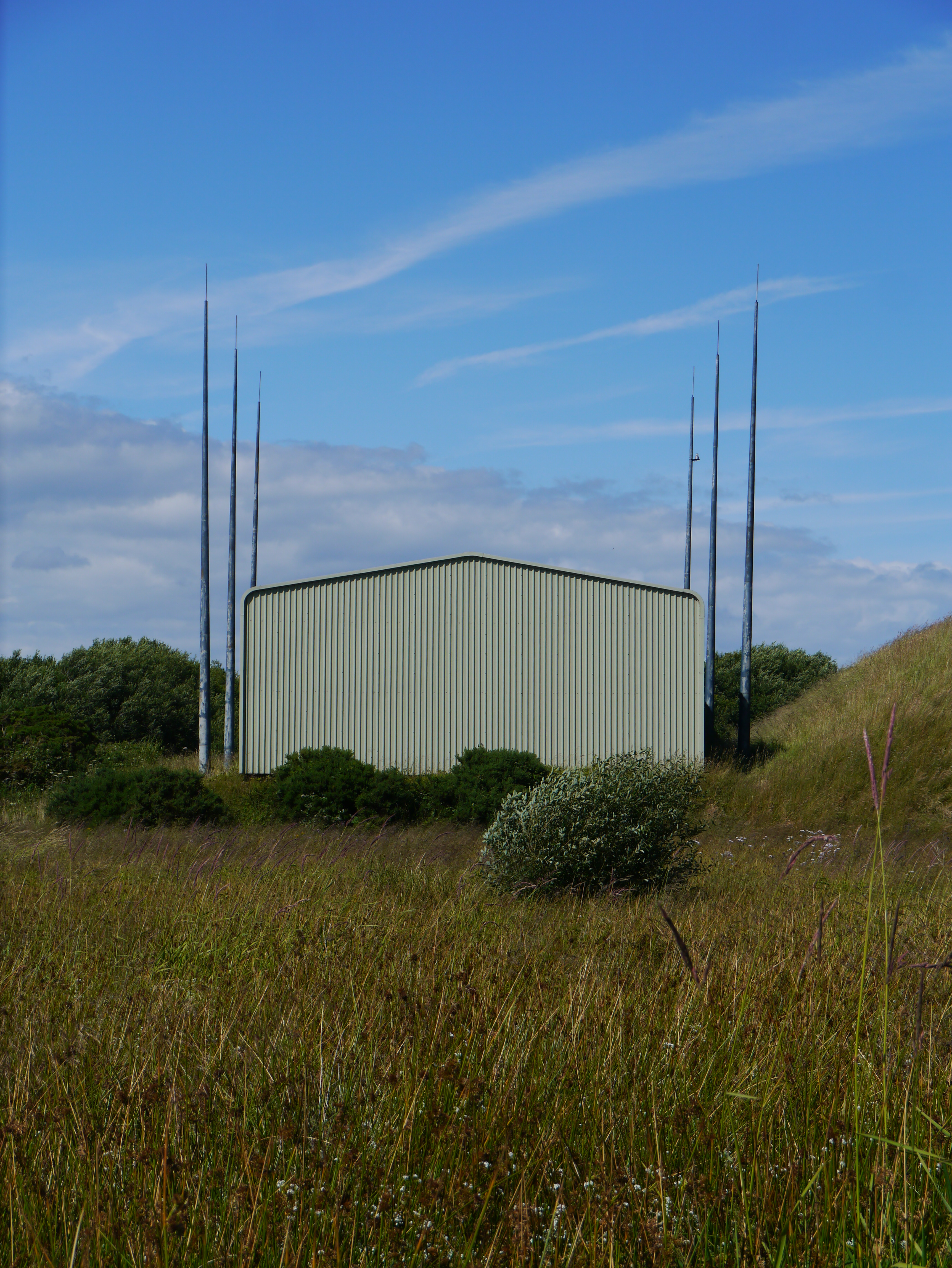 Eastriggs Munitions Depot, Building R14